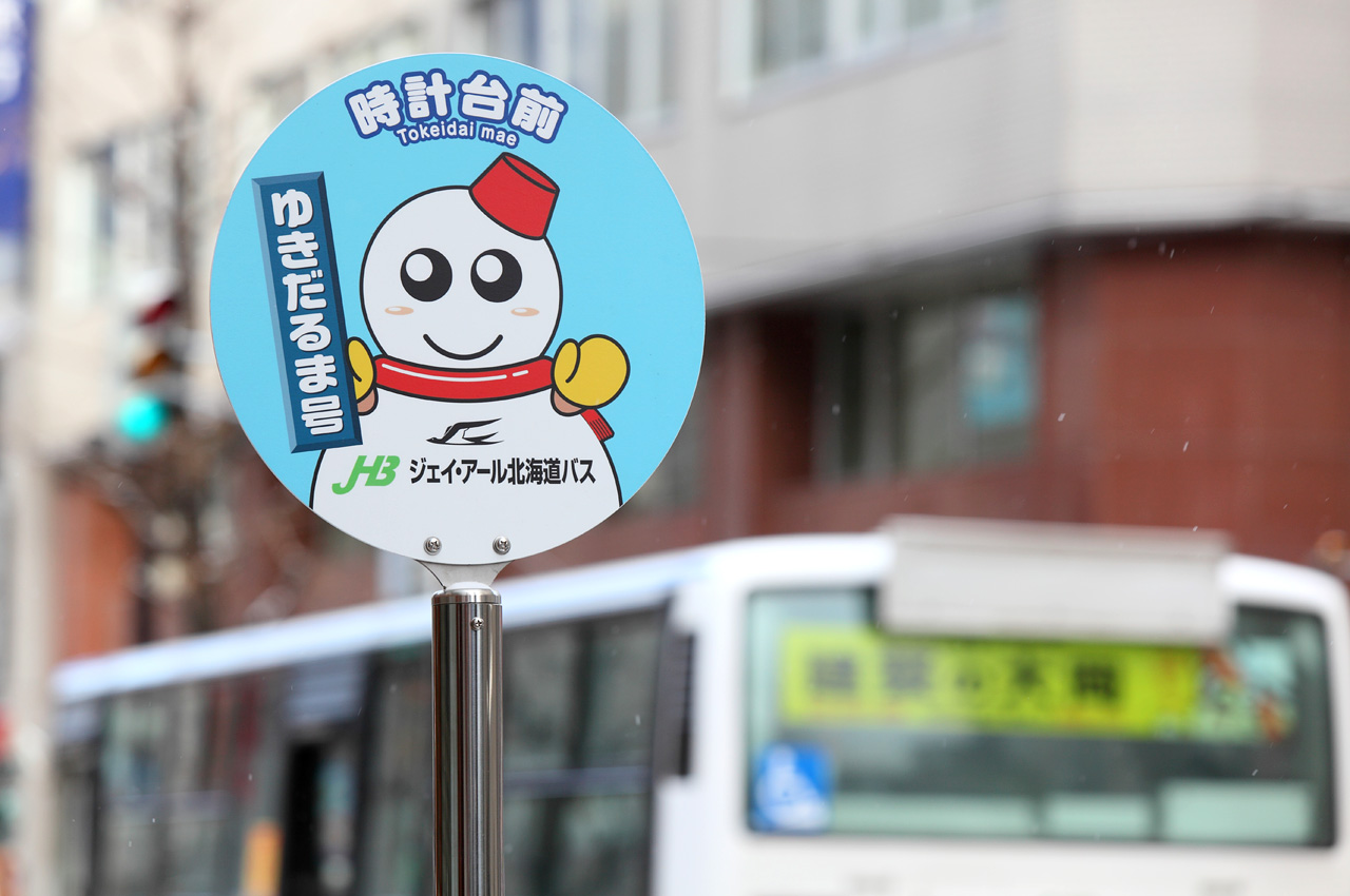 A temporary Bus Stop while the Sapporo Snow Festival.